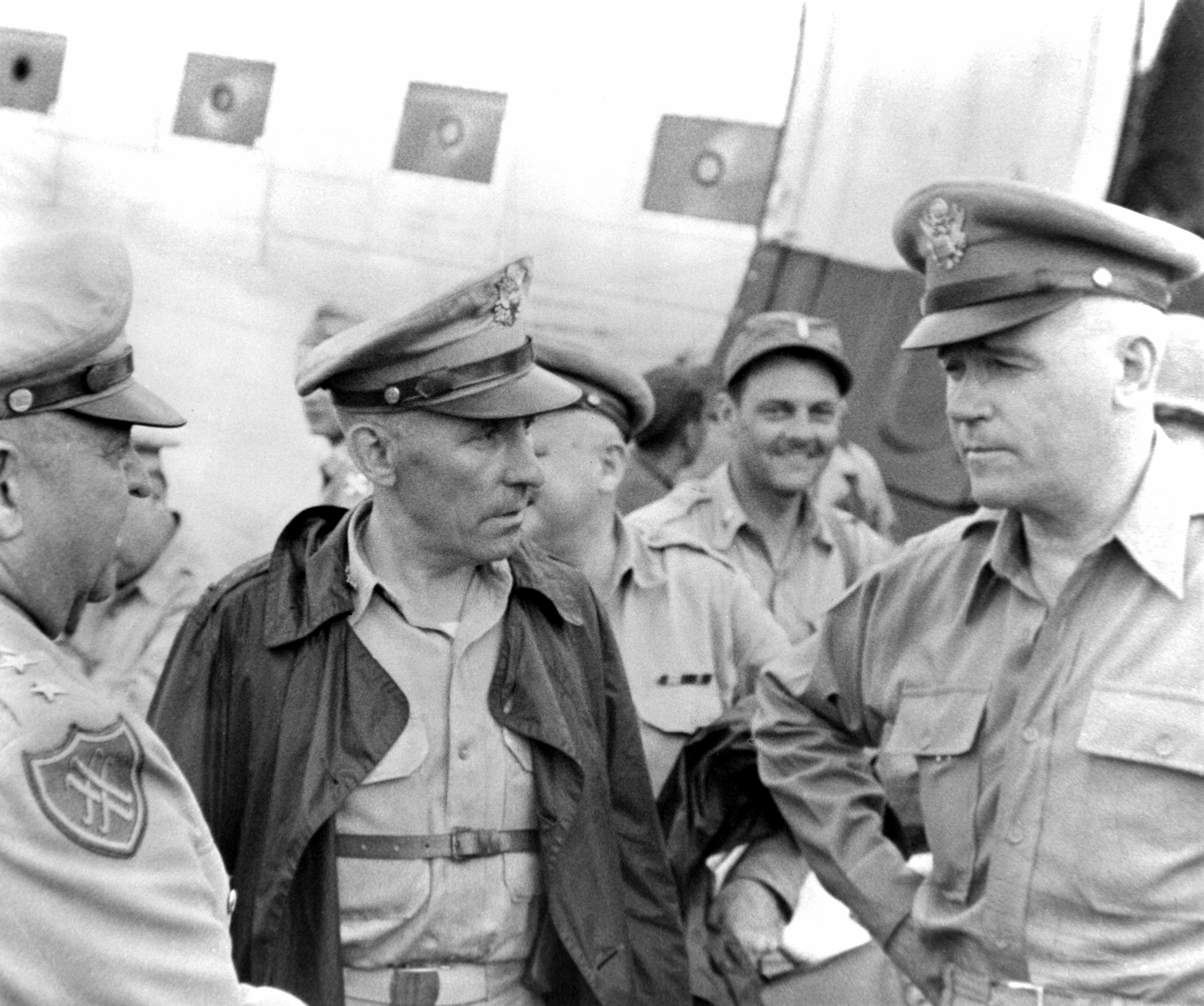 JOINT CHIEFS OF STAFF IN KOREA: Lieutenant General Walton H. Walker and Brig. Gen. John H. Church greet General J. Lawton Collins, Chief of Staff, USA, upon arrival in South Korea. NARA FILE#: 111-SC-343382